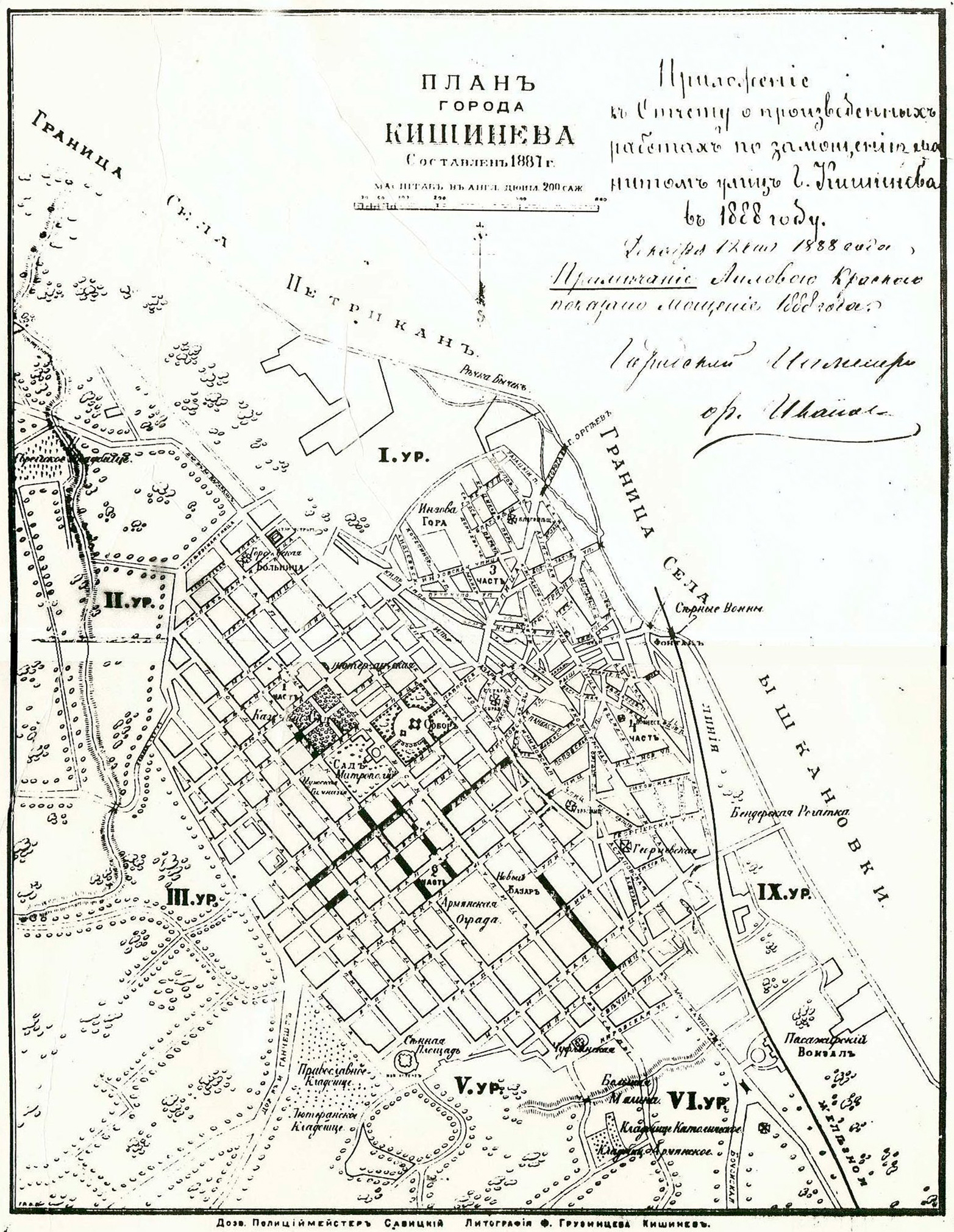 Map of Chisinau, 1887